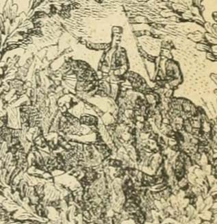 Battle of Tičar (1810)